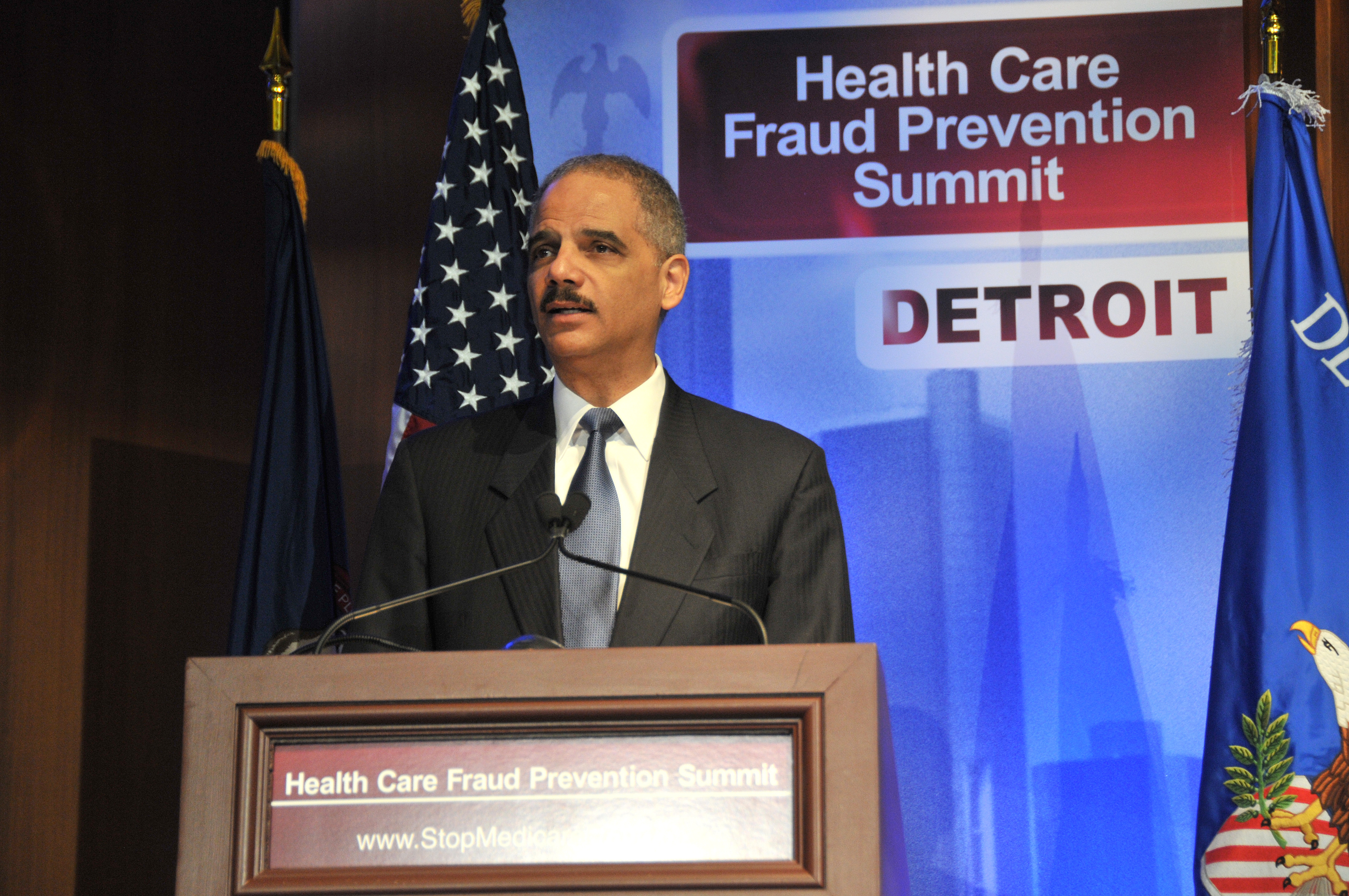 U.S. Attorney General Eric Holder addresses the audience. Photos by Rick Bielaczyc